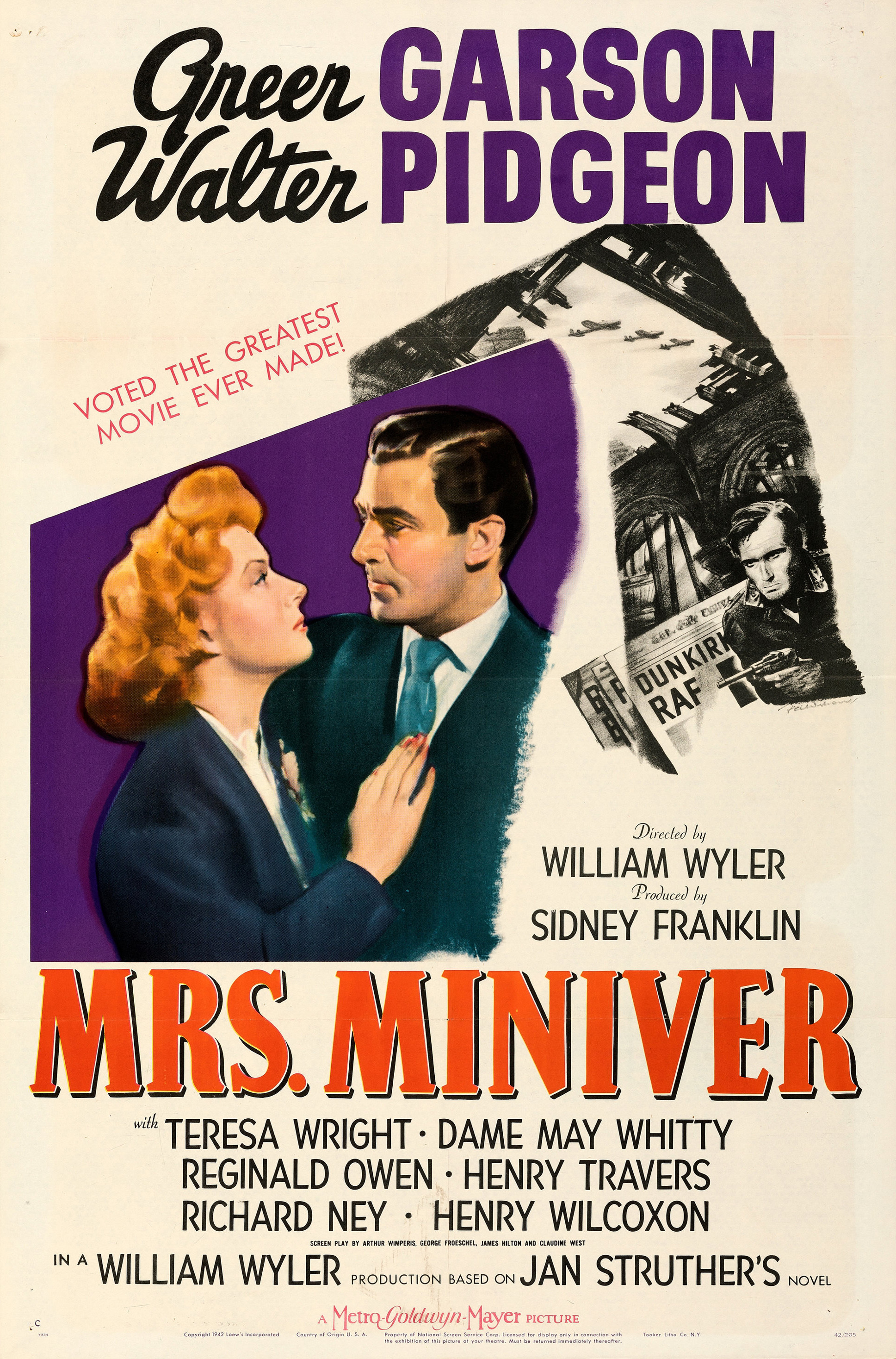 "Style C" theatrical release poster for the 1942 film Mrs. Miniver.